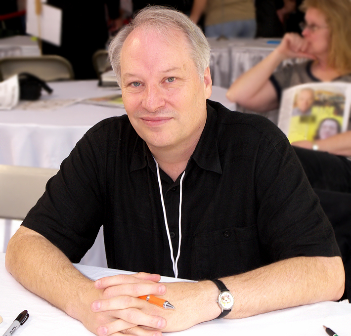 Joe R. Lansdale at the 2007 Texas Book Festival, Austin, Texas, United States.